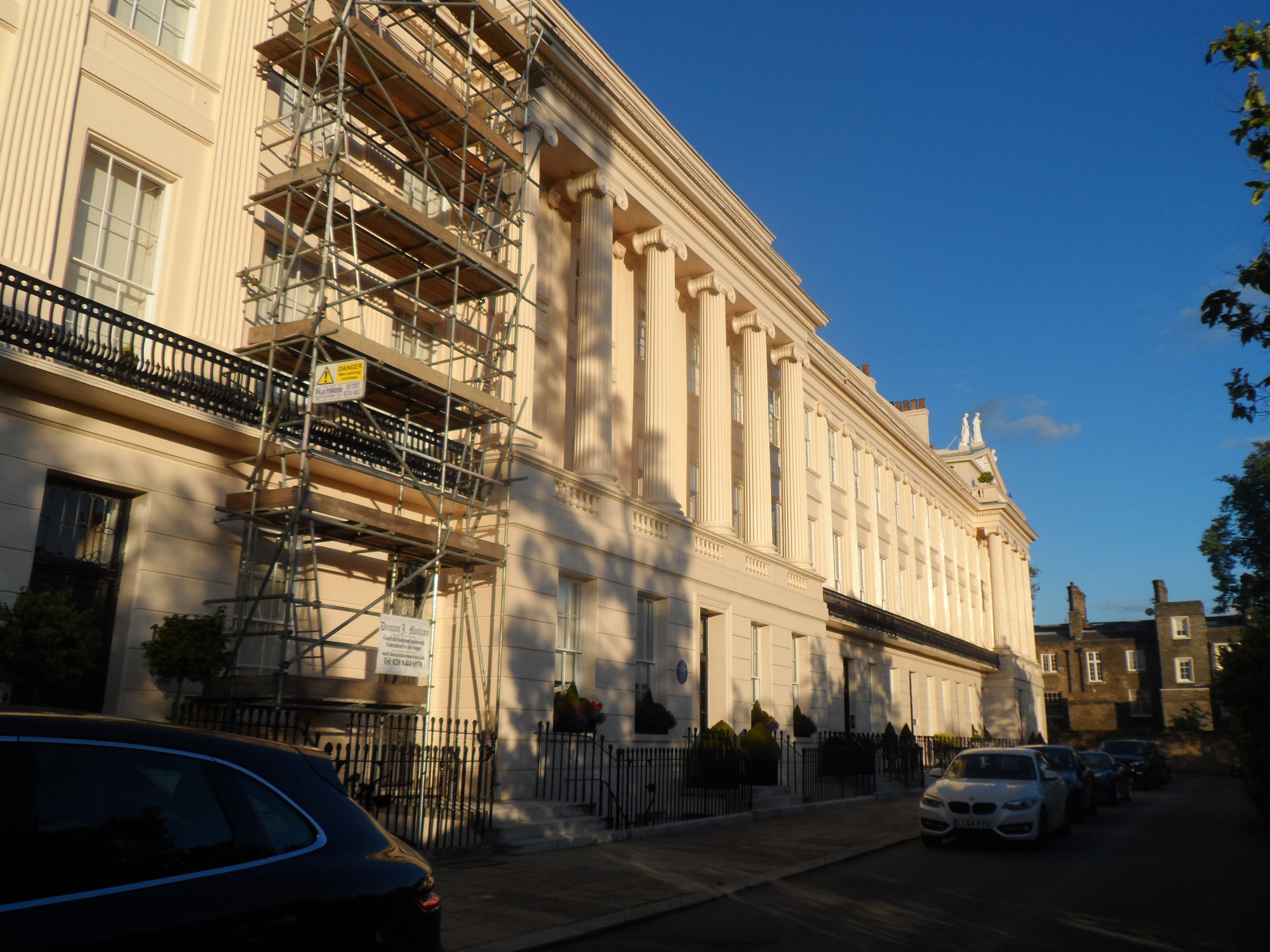 SIR HENRY WELLCOME 1853-1936 Pharmacist Founder of the Wellcome Trust and Foundation lived here